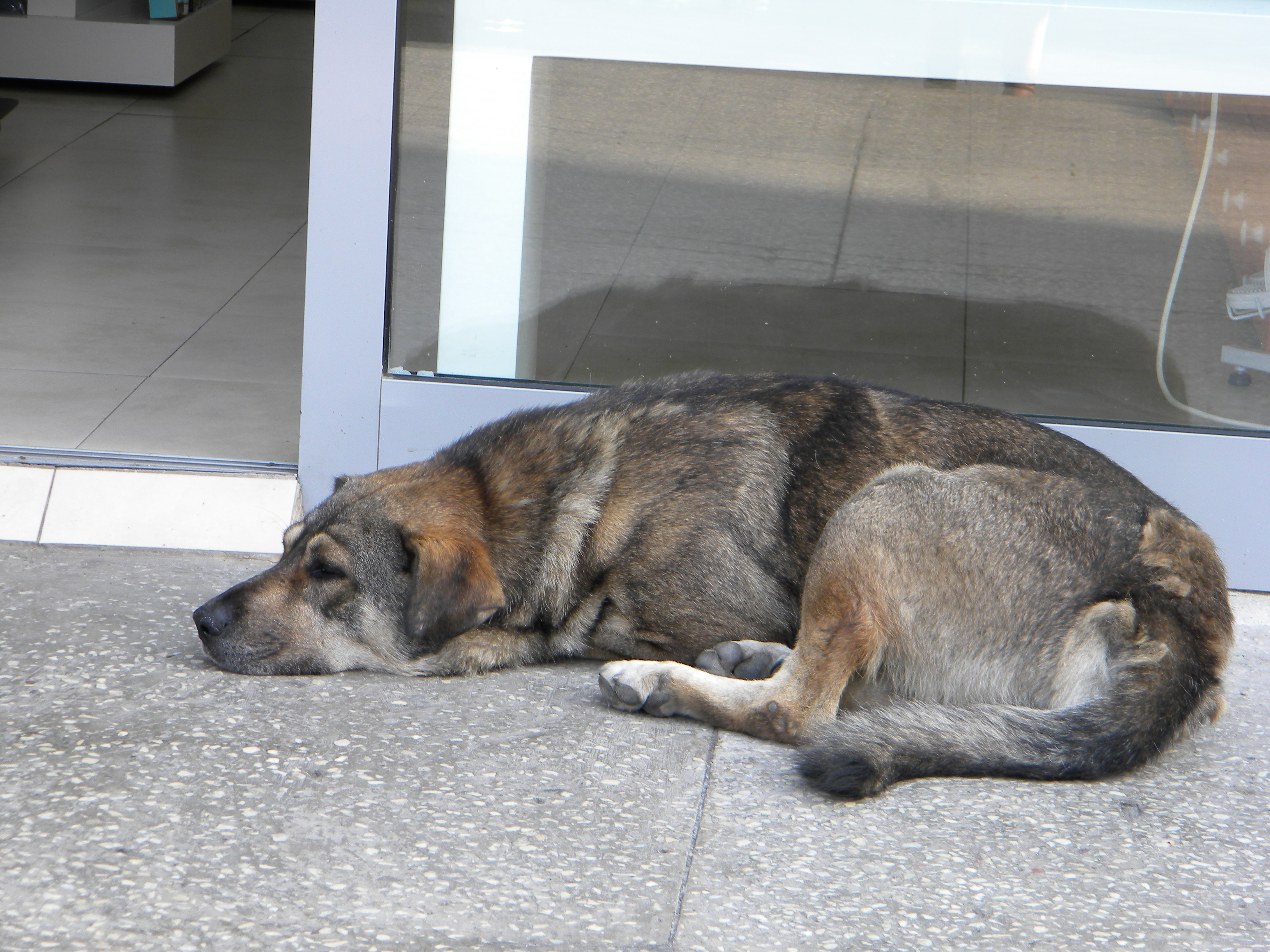 Bucuresti, Romania, acelasi dulau, frumos de Cotroceni